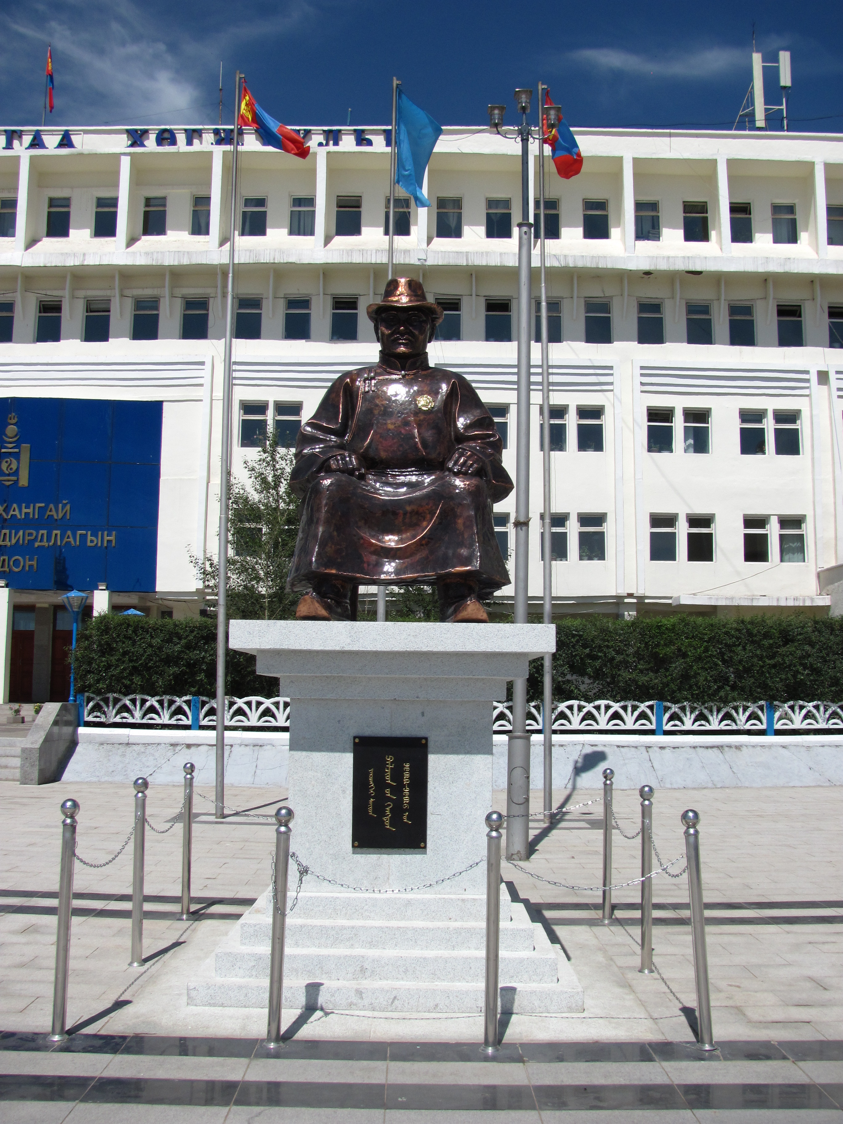 Monument, City of Arvaikheer, Mongolia